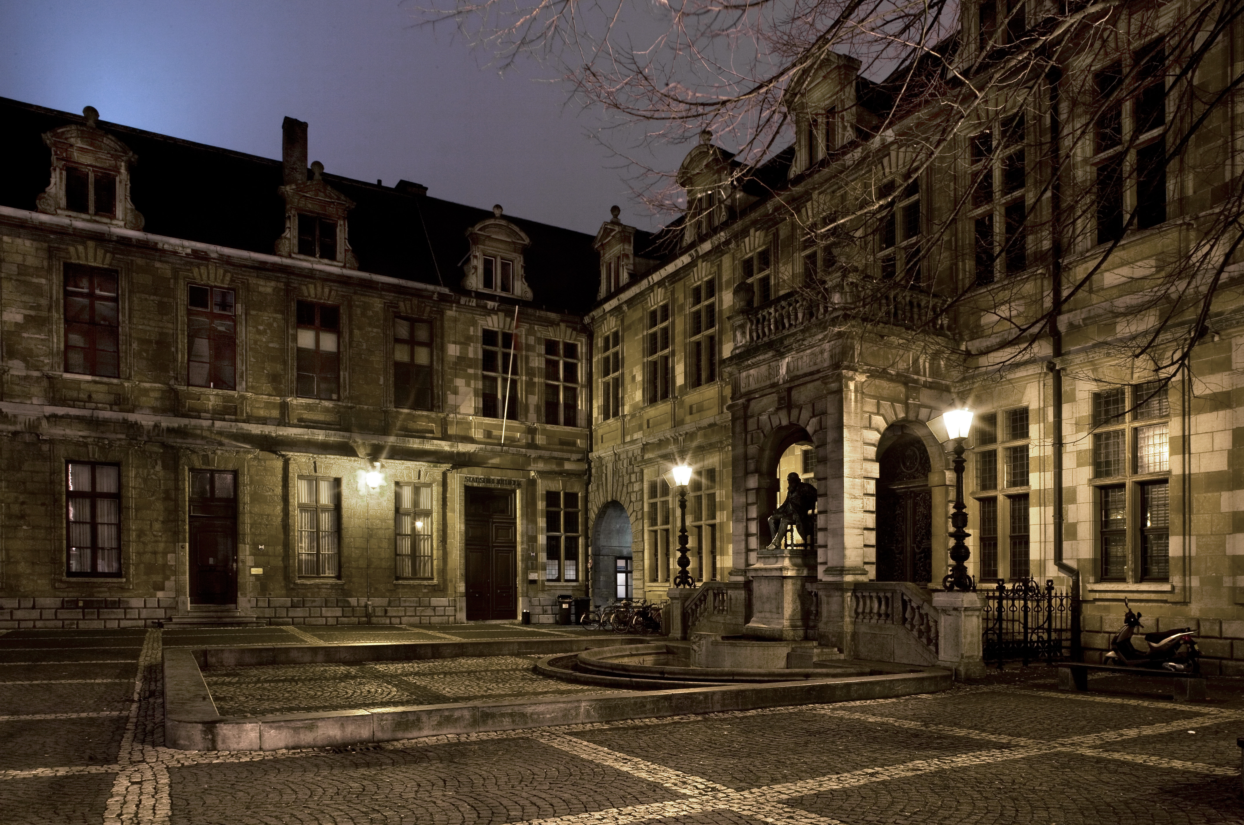 Hendrik Conscienceplein